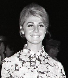 Penelope Plummer - annual winner of the 1968 Miss World contest.